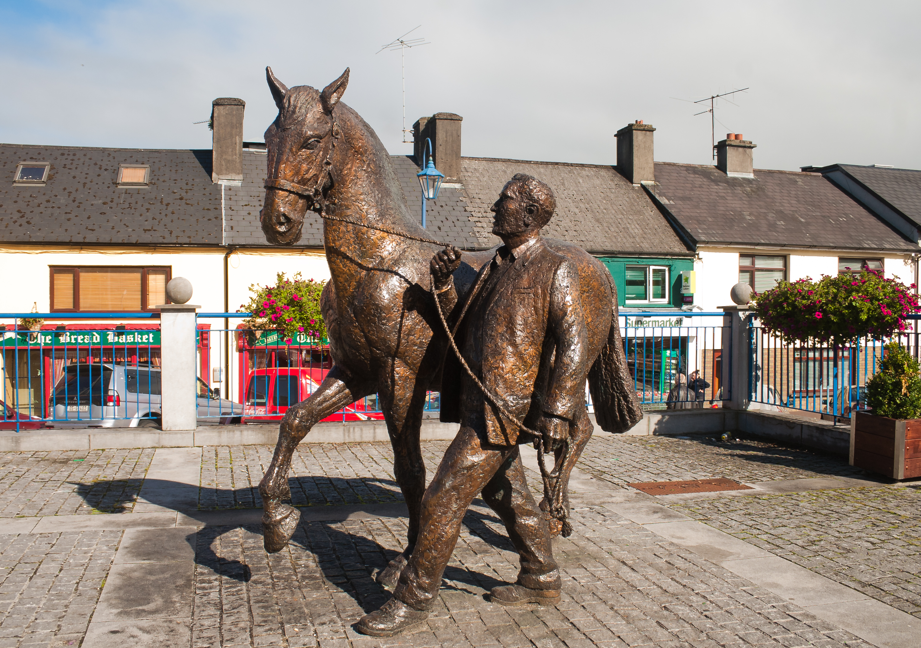 Bronze sculpture Horse and Handler in reference to the Ballinasloe Horse Fair by the sculptor James McCarthy, erected at St Michael's Square in May 2003.